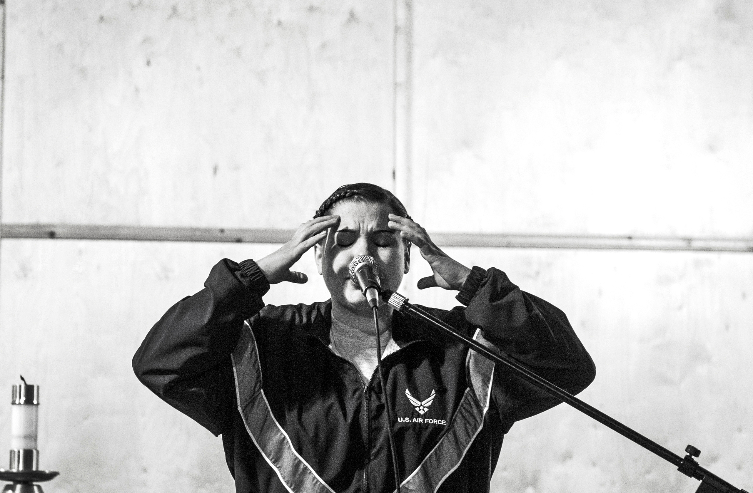 Staff Sgt. Katrina Soler, 376th Expeditionary Logistics Readiness Squadron NCO in-charge of warehouse operations, gives a performance during the last spoken word event at Transit Center at Manas, Kyrgyzstan, Feb. 11, 2014. Spoken word is an expression performance used to deliver strong messages, tell a story, or evoke emotion in the form of poetry where the artist tries to make an impact with the audience. Black History Month is a celebration and recognition of achievements by black Americans in US history. Soler is deployed from Royal Air Force Mildenhall, England, and is a native of Rochester, N.Y. (U.S. Air Force photo/Senior Airman George Goslin)